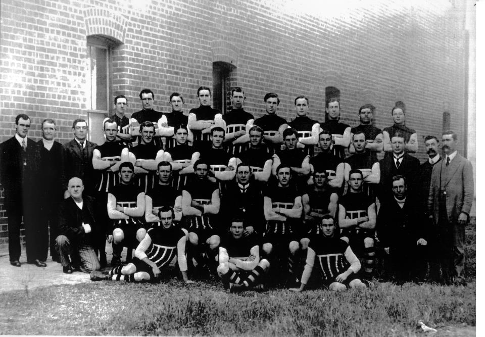 Team photo of the Port Adelaide 1913 premiers.